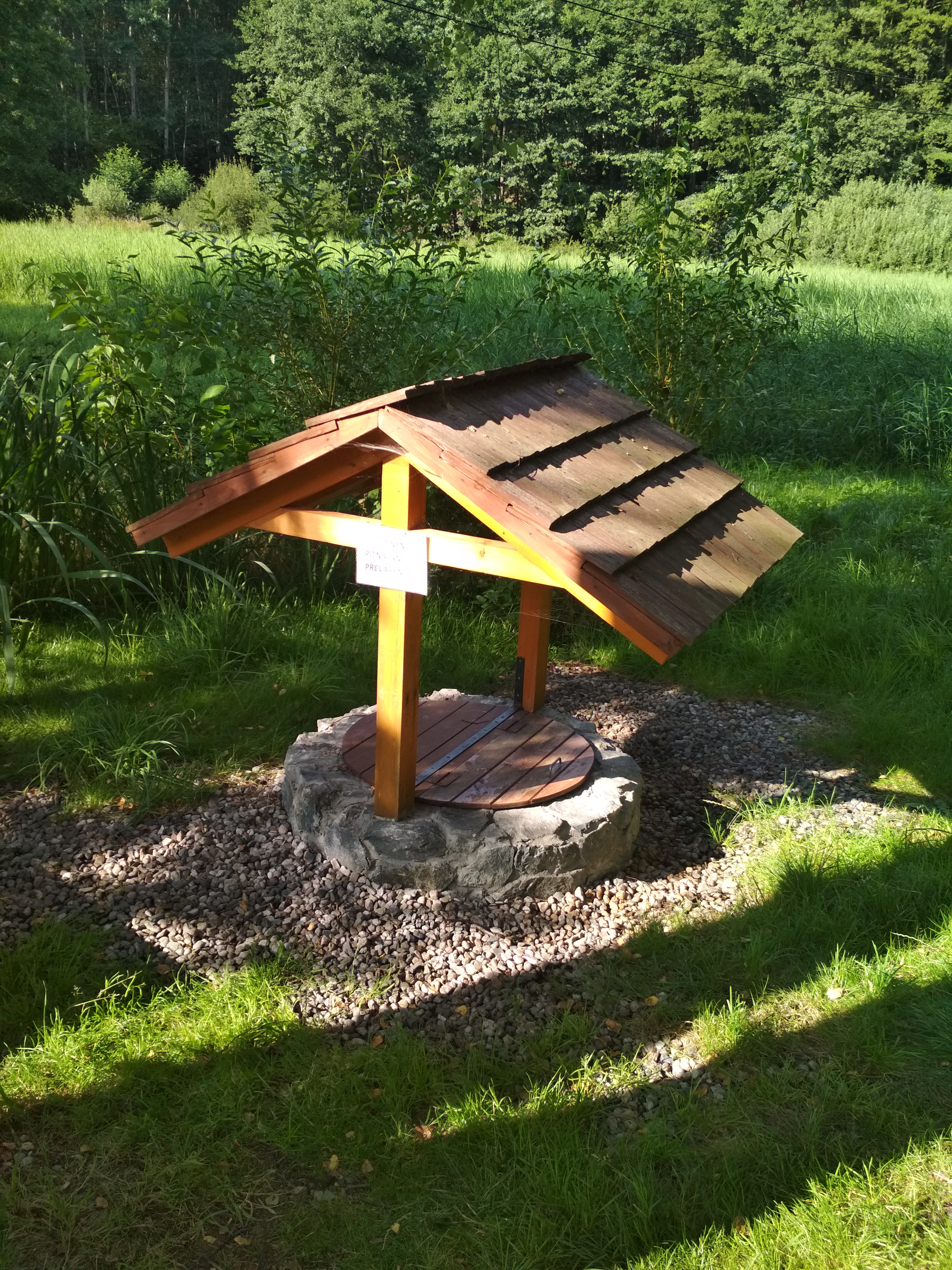 Spring "Petrovka" (formerly "U Košutky") near nature reserve Petrovka in Bolevec (Pilsen) as fixed in 2013